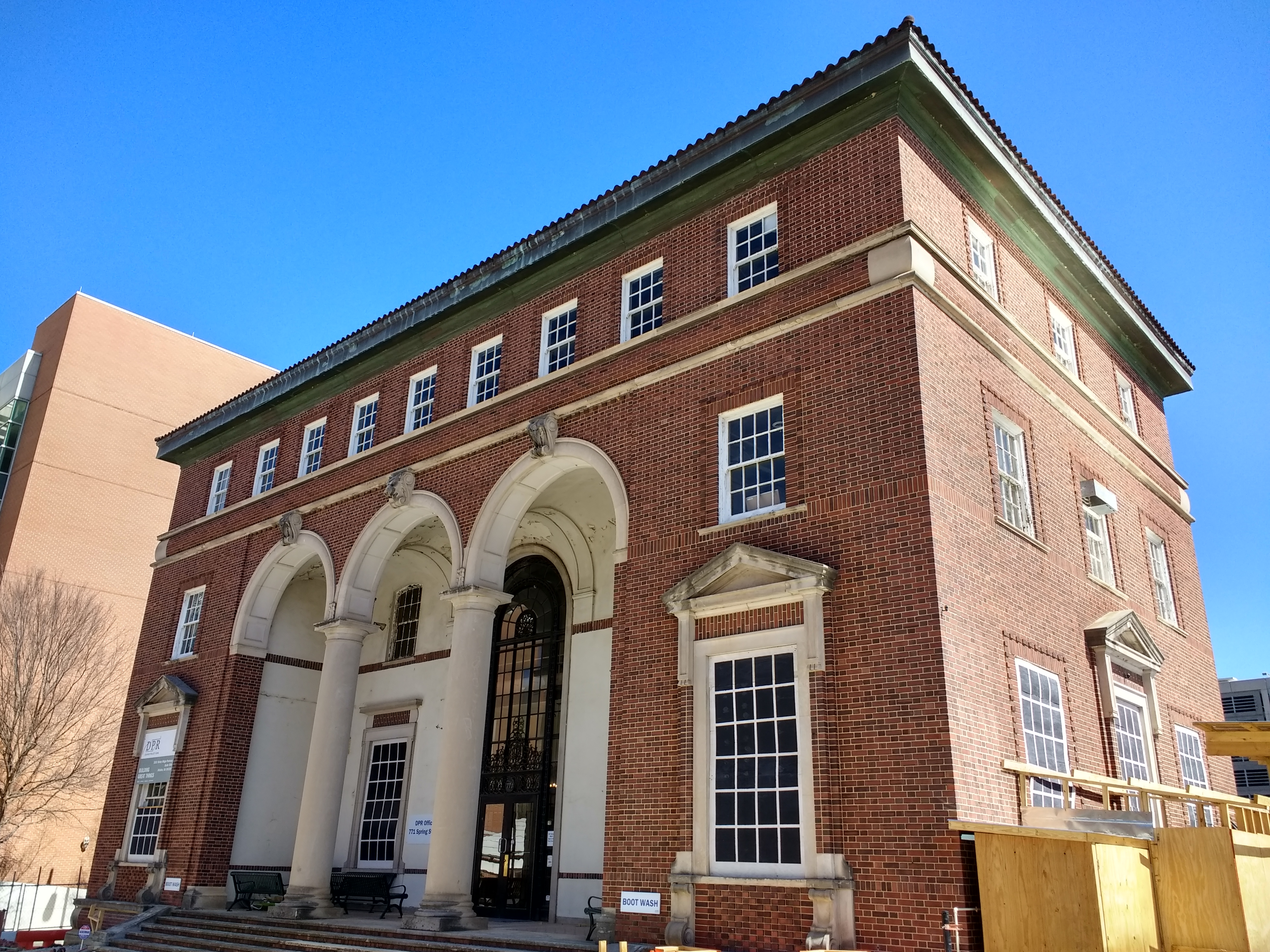 Crum & Forster Building in Atlanta in March 2017.